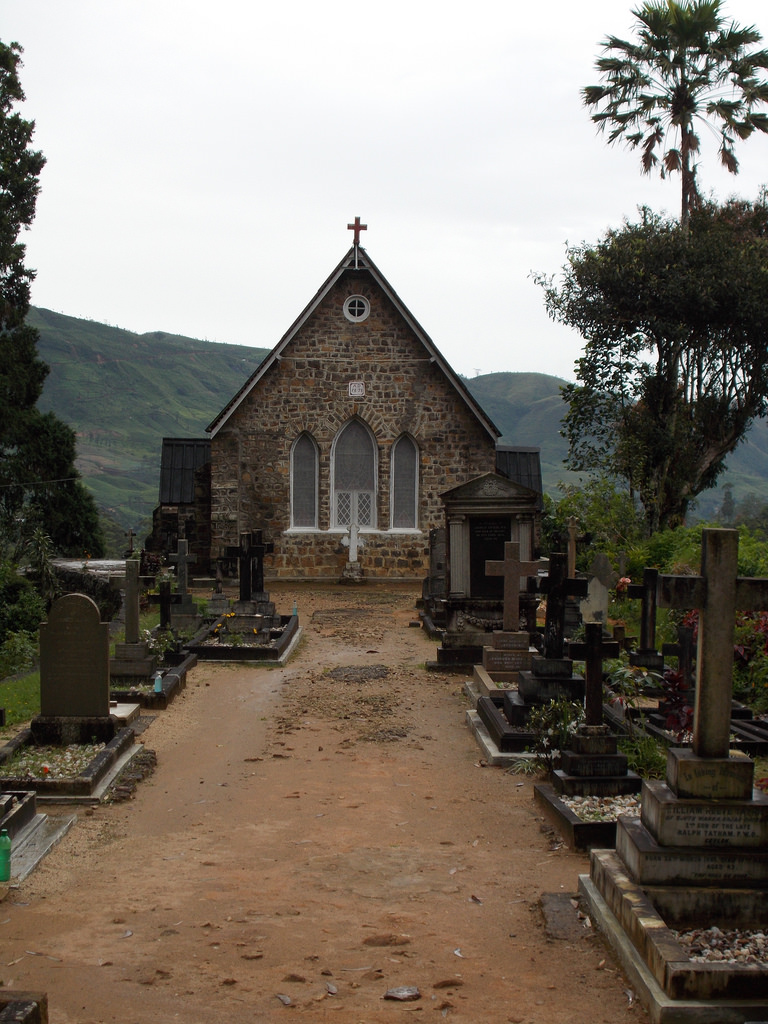 Malakkappara or Malakhapara is a hill station in the western ghats of Kerala state, India.